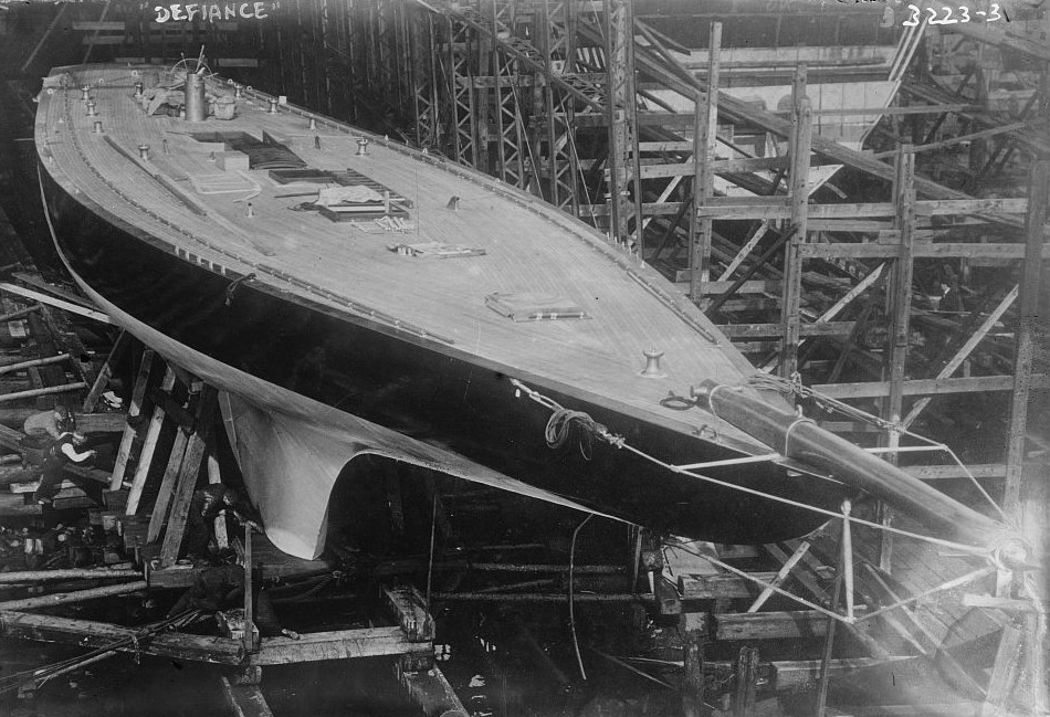 Defiance Bain News Service,, publisher. DEFIANCE [between ca. 1910 and ca. 1915] 1 negative : glass ; 5 x 7 in. or smaller. Notes: Title from unverified data provided by the Bain News Service on the negatives or caption cards. Forms part of: George Grantham Bain Collection (Library of Congress). Format: Glass negatives. Repository: Library of Congress, Prints and Photographs Division, Washington, D.C. 20540 USA, General information about the Bain Collection is available at Persistent URL: Call Number: LC-B2- 3223-3